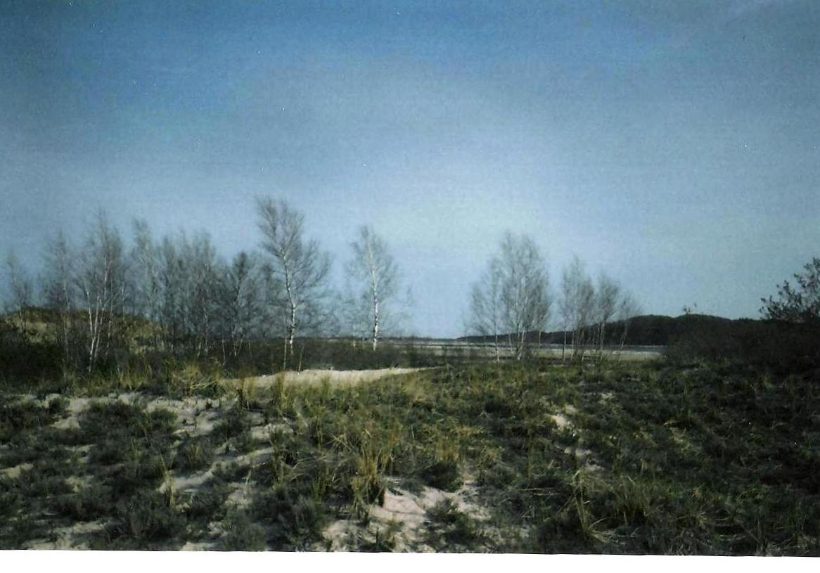 View south from the beach at Sandy Point State Reservation. The hill is Castle Hill across Ipswich Bay. Breakers are visible behind the screen of White Birch.